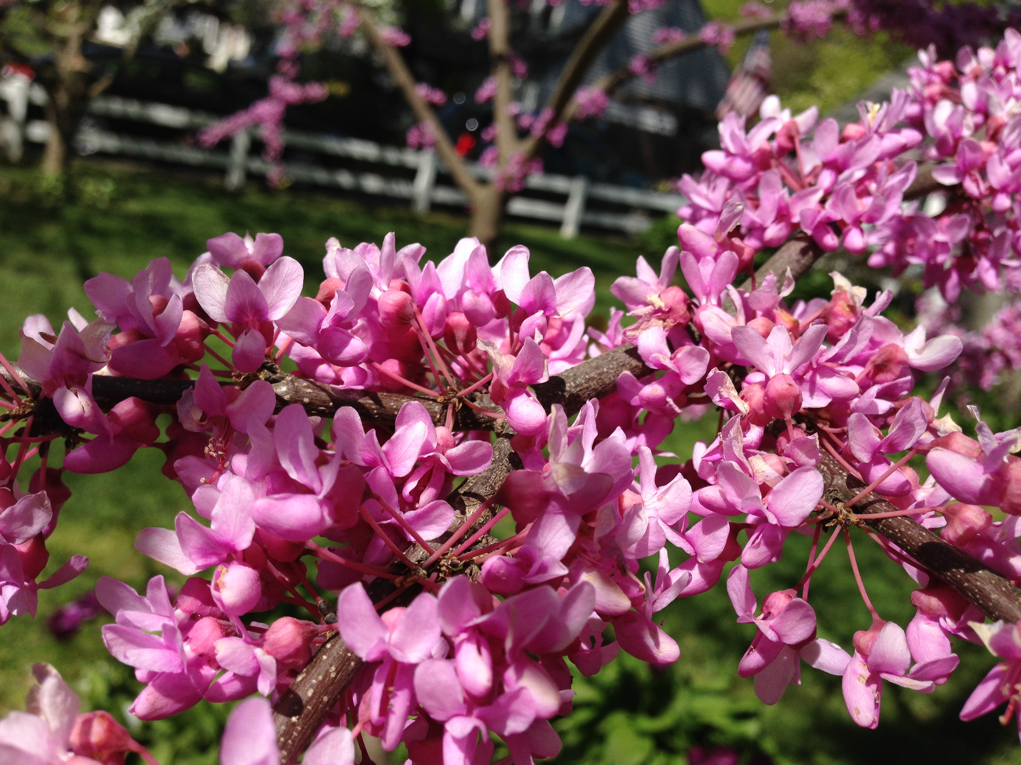 Cercis canadensis blossums in Ewing, NJ on May 4th 2013